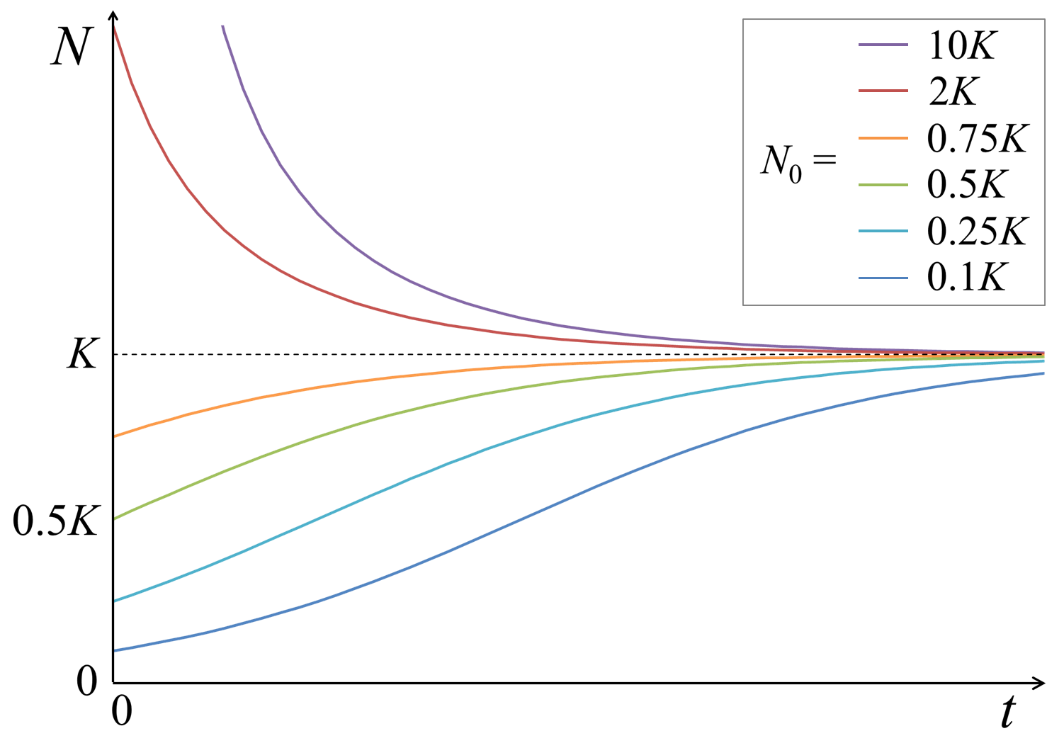 Logistic curve in some initial conditions (initial populations), N0. The curve can be calculated by the following: N = N 0 K e r t K − N 0 + N 0 e r t {\displaystyle N={\frac {N_{0}Ke^{rt {K-N_{0}+N_{0}e^{rt where, N is population (the vertical axis), t is time (the horizontal axis), r is intrinsic rate of natural increase, K is carrying capacity. N0 is the population when t = 0.